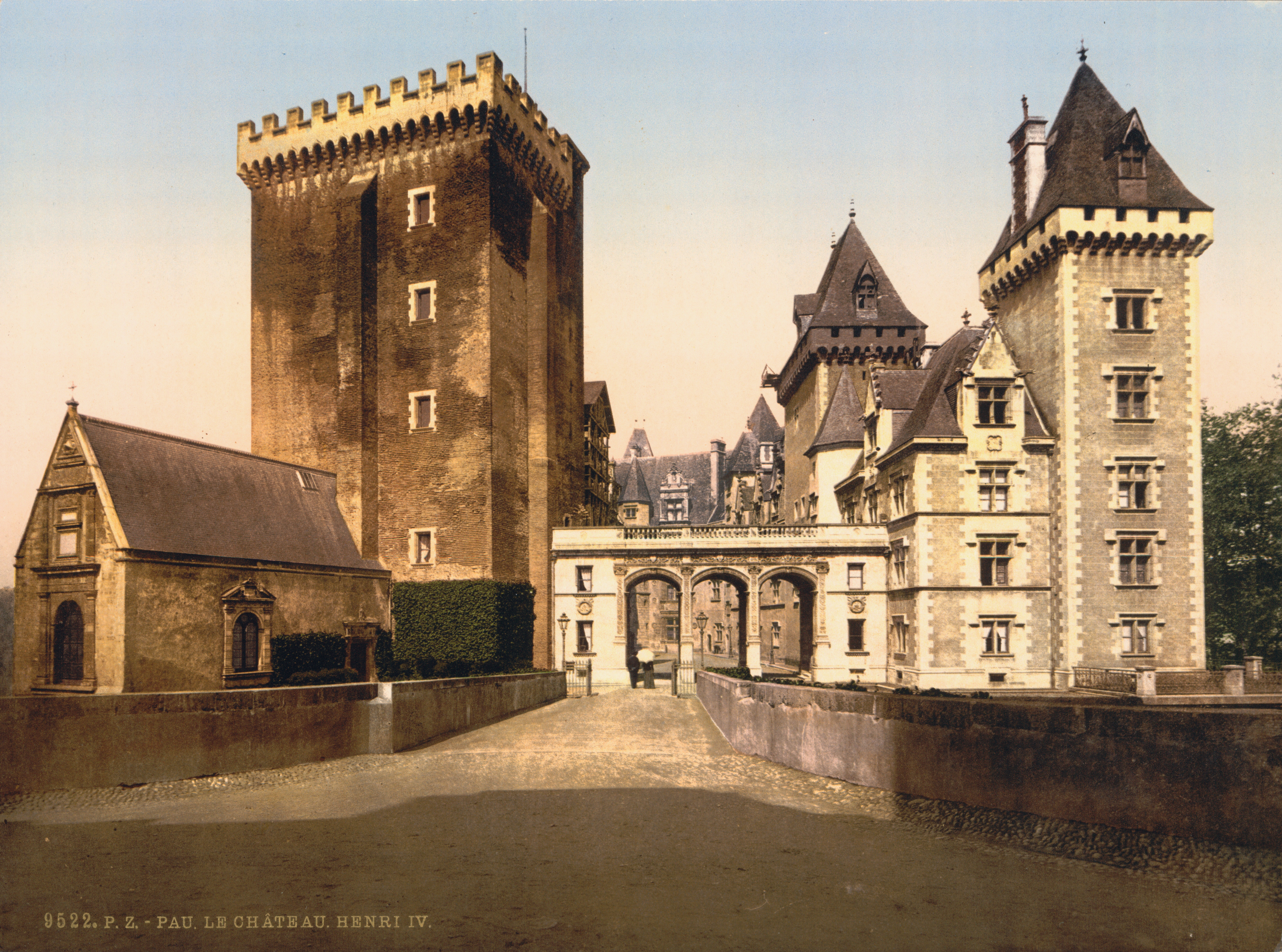 Château de Pau, eastern aspect around 1900